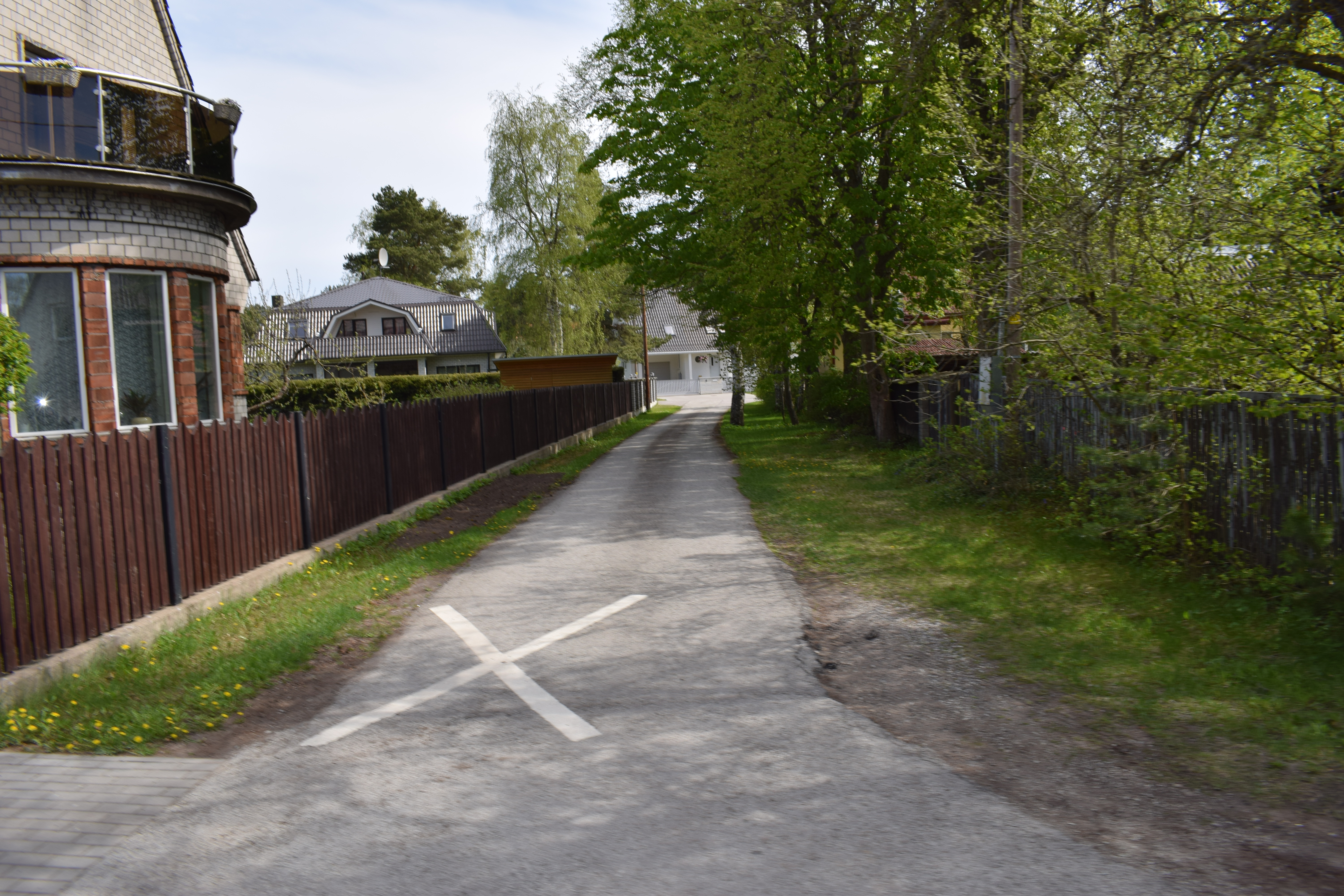 Metsakooli põik